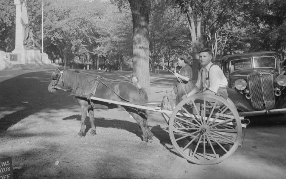 Georges Henri Blais leads a cart pulled by a pony near Lafontaine Park in Montreal. In the background we see the monument to Dollard des Ormeaux sculptor Alfred Laliberté.